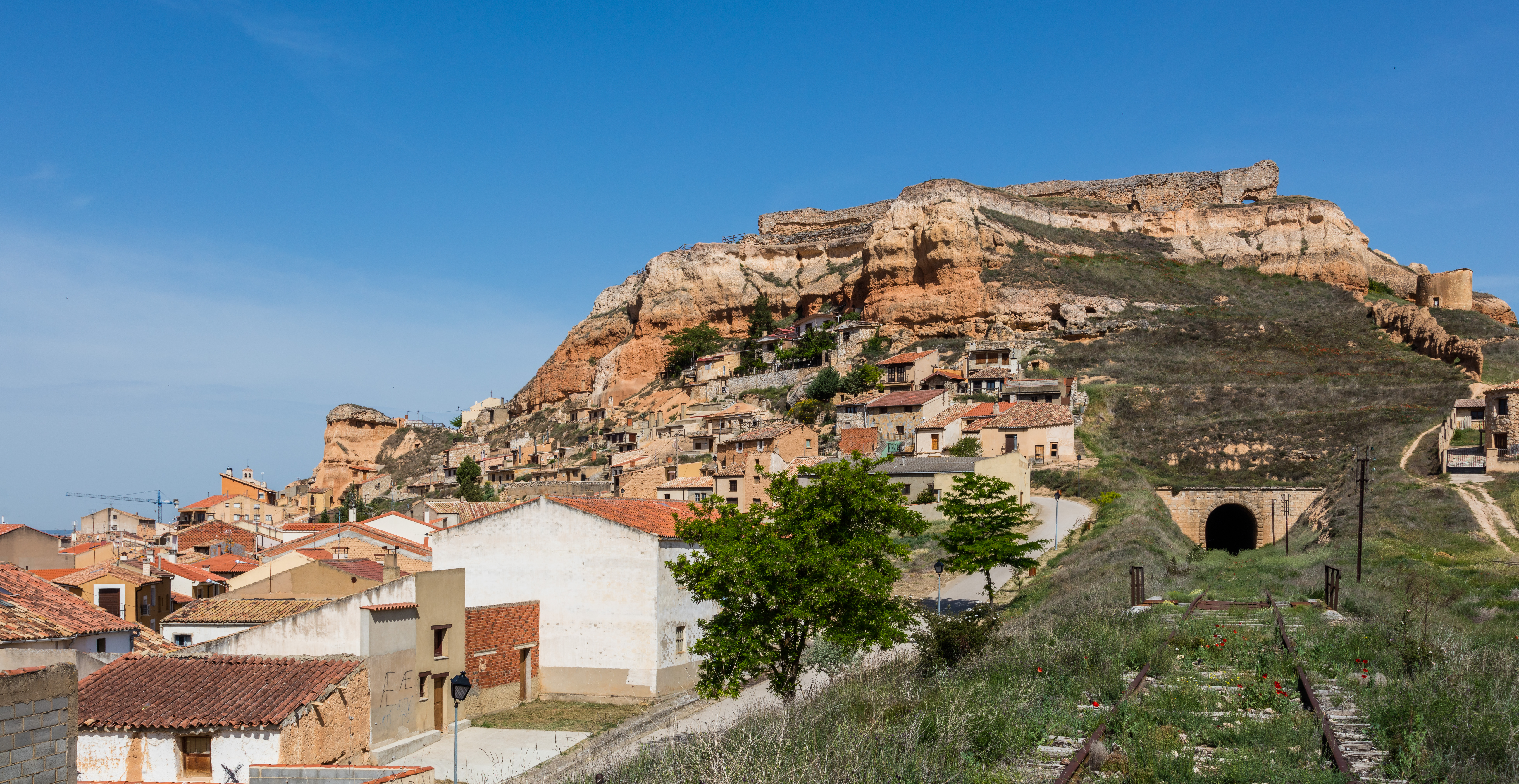 San Esteban de Gormaz, Soria, Spain